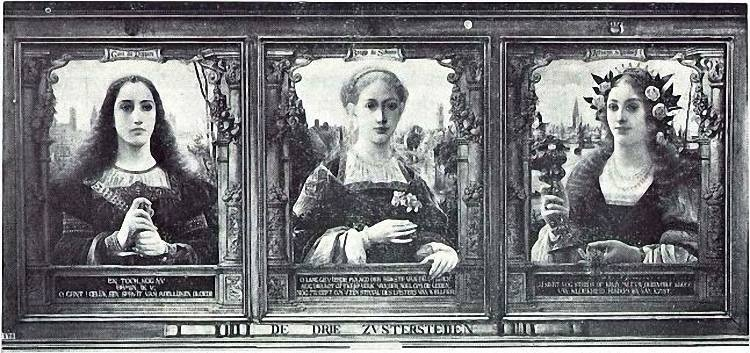 Drie zustersteden